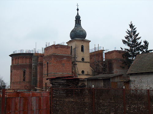 Greek-Catholic church in Ungheni (Romania), surrounded by an Orthodox church under construction